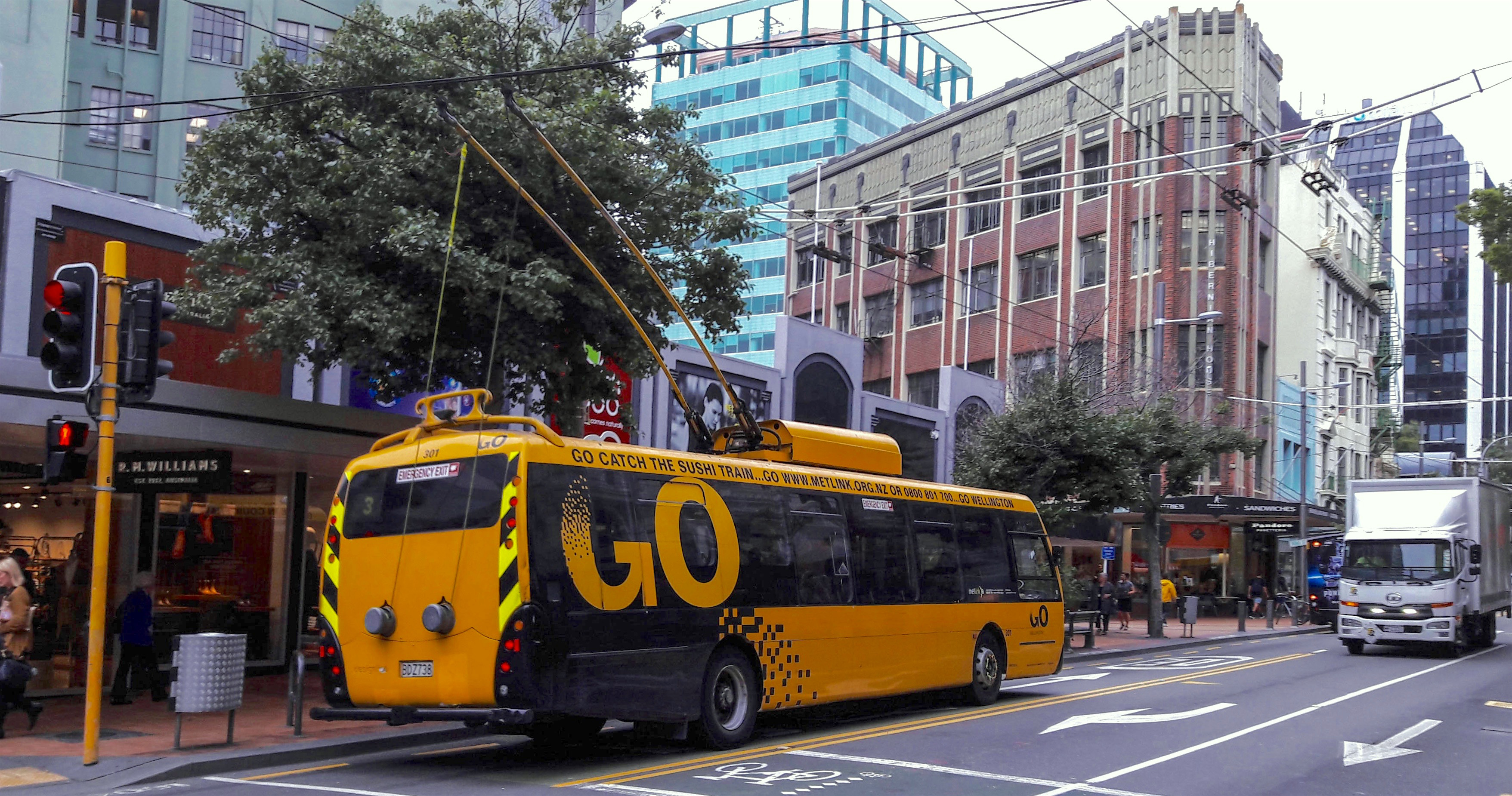 Catching the miracle: Prototype low-floor trolley 301 has been out of service for over two years. So the surprise of early 2017 was its return to service when closure of the system is imminent. 301 returned to traffic a month ago, but it doesn't appear to have been used much. I saw it a few weeks ago but don't have my camera or phone on me. Luckily today I had my phone and grabbed a shot. Even better is unlike my last encounter 301 didn't scuttle off to the depot. So I managed a sequence of shots on my camera latter in the day. No. 301 was southbound in Willis Street at Bond Street when captured in this photograph. It was built by DesignLine in 2003, as the first prototype for a planned order of new trolleybuses. Two more prototypes, Nos. 302 and 303, were built in 2004–05 (and delivered in May 2005) were again two-axle vehicles. The remaining 57 vehicles in the overall 60-vehicle order were three-axle trolleybuses (numbered 331–387), built in 2007–2009.